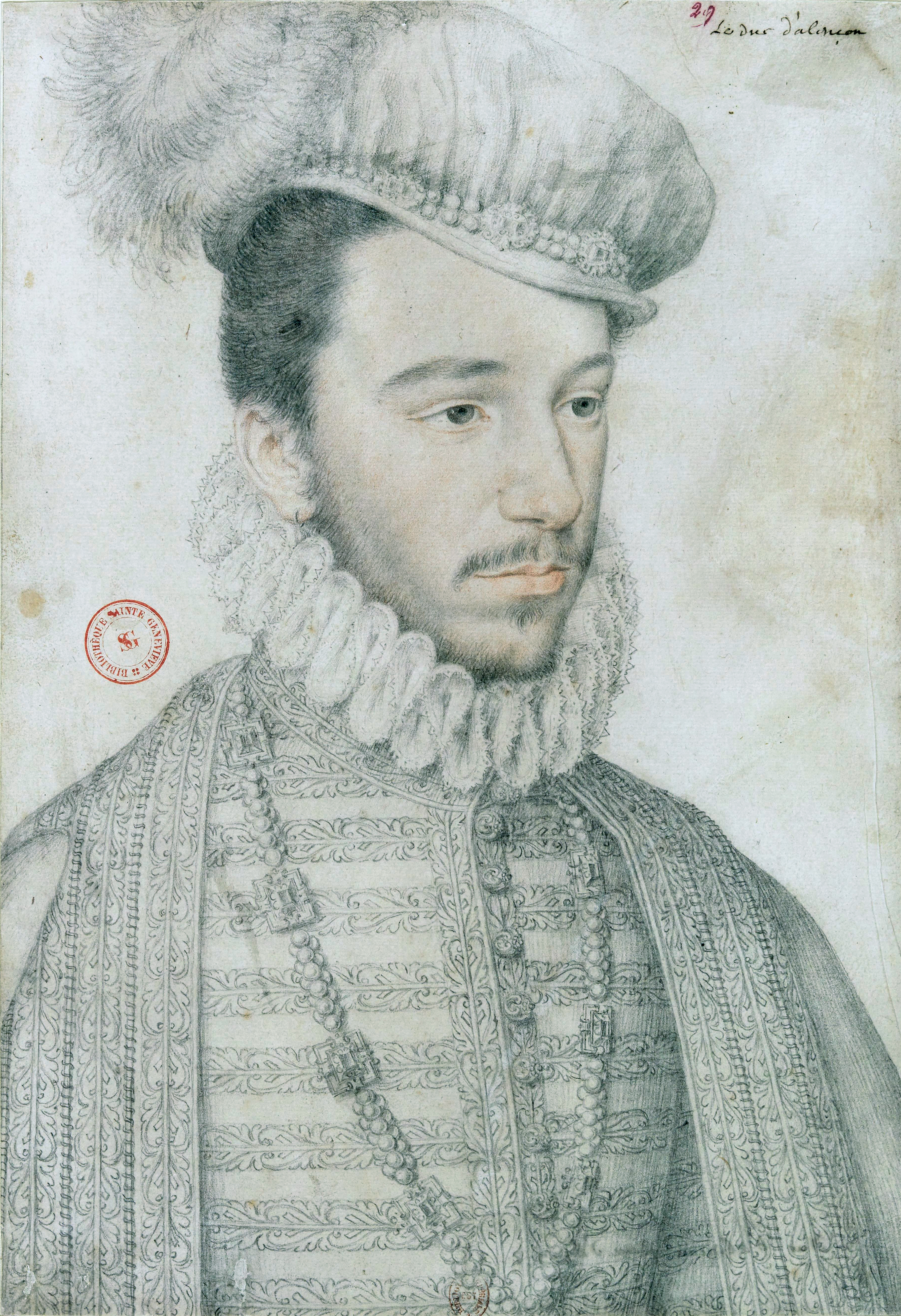 Henry, duke of Anjou.